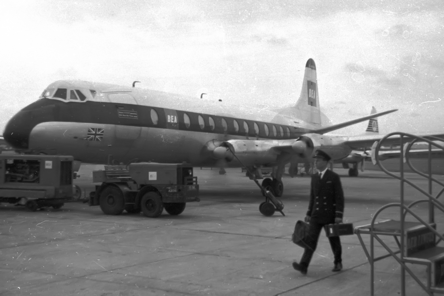 Rolls Royce Darts on this Viscount screaming away as they did with this fellow walking by with no ear protection, hi-viz or a care in the world. Those were the days. Photo taken by my Dad. In those days you could walk on to the ramp although there was a little picket fence. Hard to believe now. Fifteen years later this was my place of work. See other photos in the EDI set of this exact same location then used as a remote parking and Cargo area. Scanned from an old negative I just found in the loft.